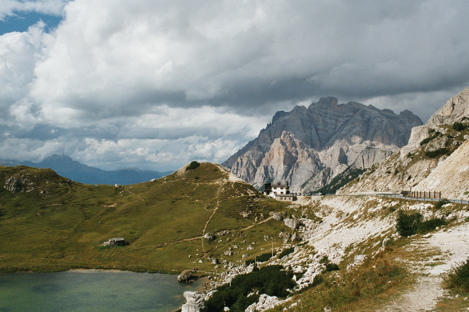 Italian Alps, province of Belluno: Passo Valparola, ladin Ju de Valparola, Valparolapass (until the first world war part of Tyrol). Picture taken 2003, September. With lake Valparola and Rifugio Valparola. Photograph taken in direction NNW.